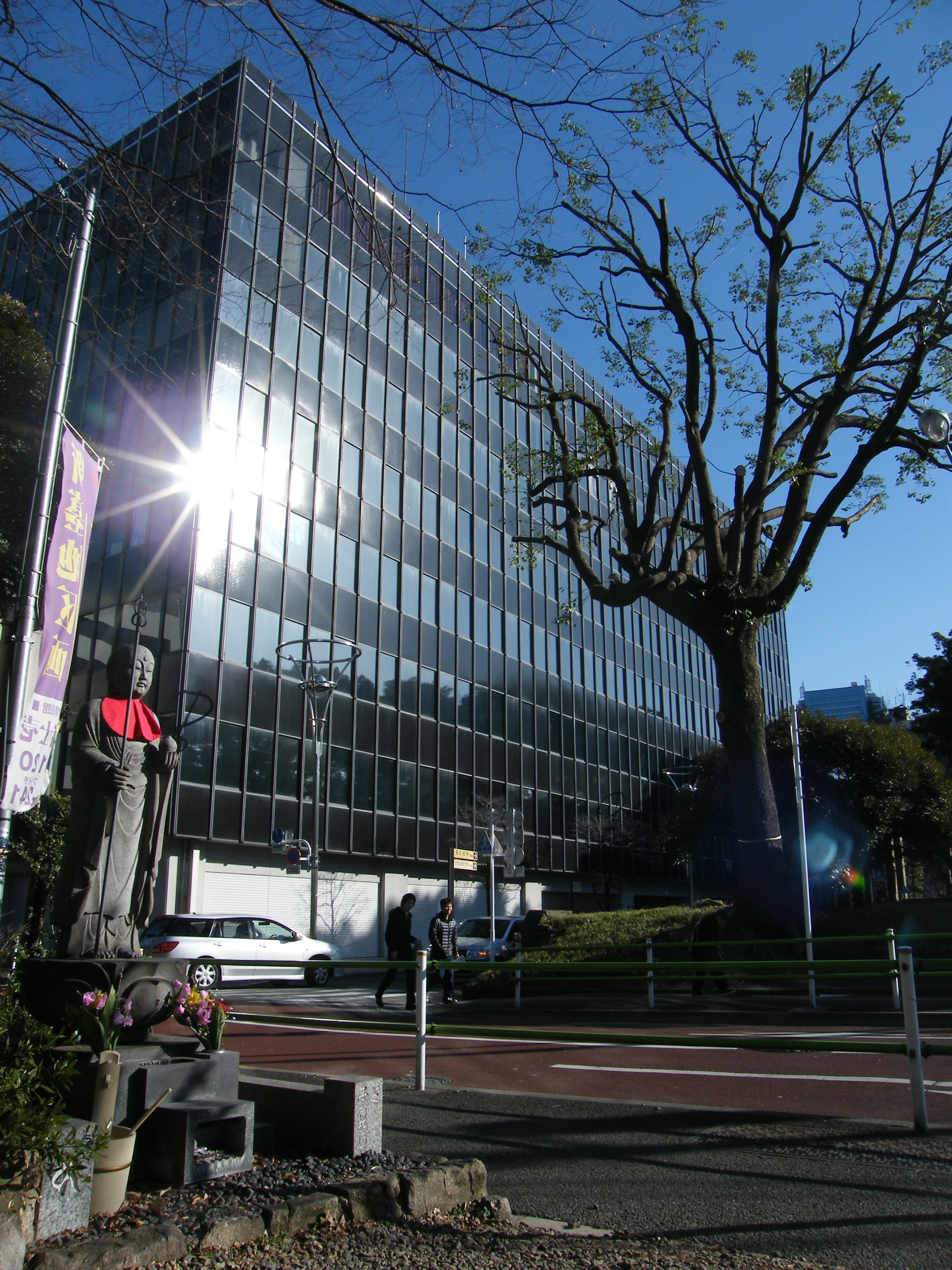 The Central Labor Relations Commission in Shibakoen, Minato-Ku Tokyo, Japan